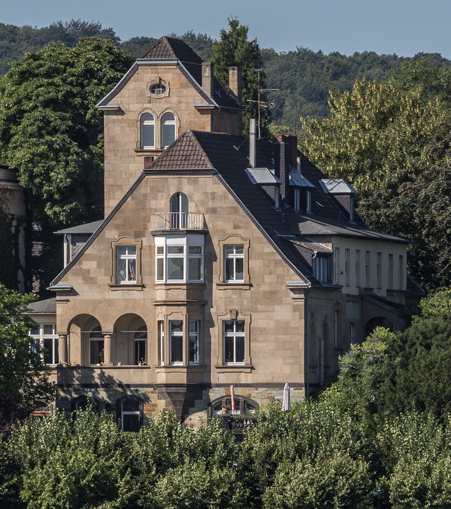 Villa Heckmann, Raiffeisenstraße 3, Bonn: view from the opposite Rhine riverside